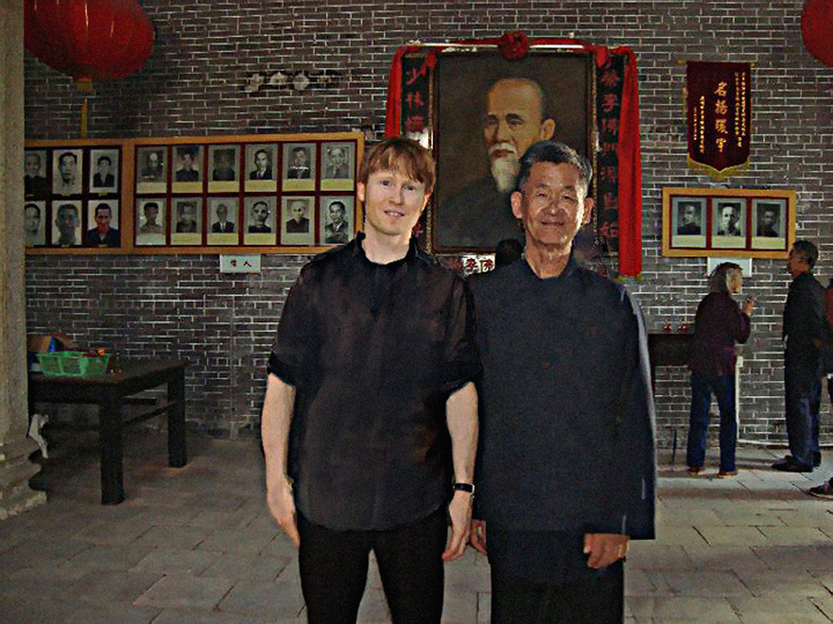 Niel Willcott with Chan Sun Chiu